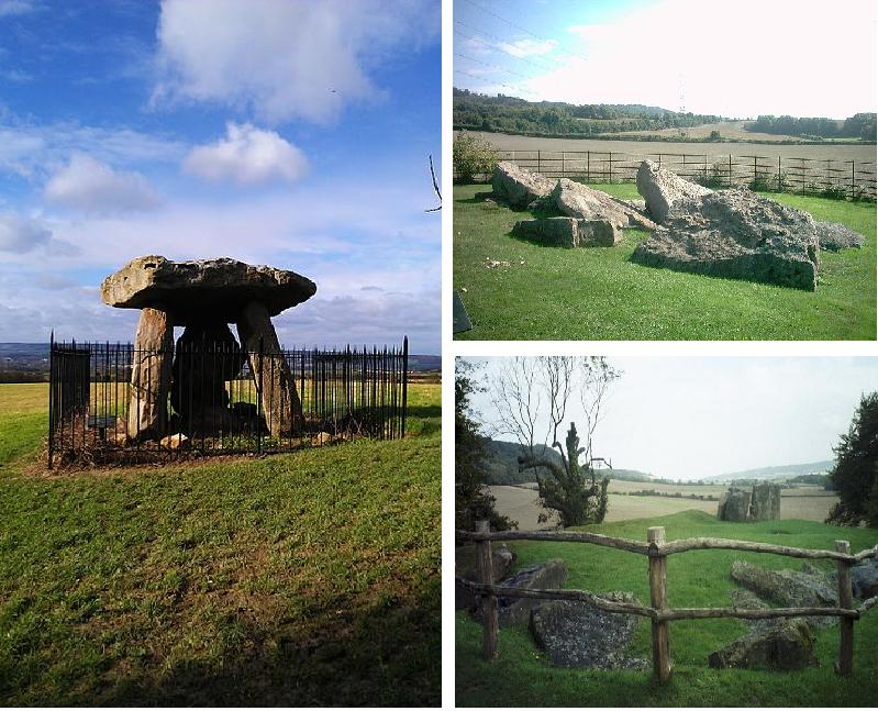 Three images of different Medway Megaliths, for use on the page's infobox; Kit's Coty House (left), Little Kit's Coty House (top right), and the Coldrum Stones (bottom left). I have assembled these three images from elsewhere in Wikipedia. The Kit's Coty Image is by User:Ethan Doyle White and is accessible at "File:Kit's Coty House in February 2014.jpg". The second image is by User:Adamsan and is accessible at "File:Littlekitscoty.jpg". The third is also by User:Adamsan and is available at "File:Coldrumeast.jpg".